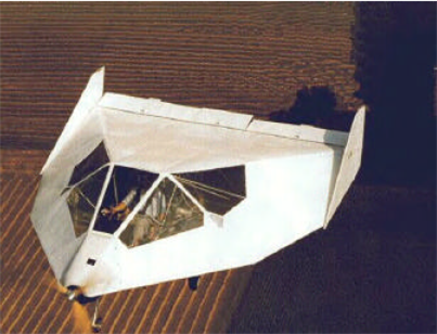 FMX-4 Facetmobile homebuilt aircraft, photographed from above in flight, showing shape and flat panel structure. From NASA LARC NAG-1-03054 "Feasibility Study of the Low Aspect Ratio All All-Lifting Configuration as a Low-Cost Personal Aircraft". Report available from NASA or the study authors: Barnaby Wainfan and Hans Neiubert, at URL: Copied from report PDF, converted to PNG, and uploaded on October 24, 2006 by George William Herbert.